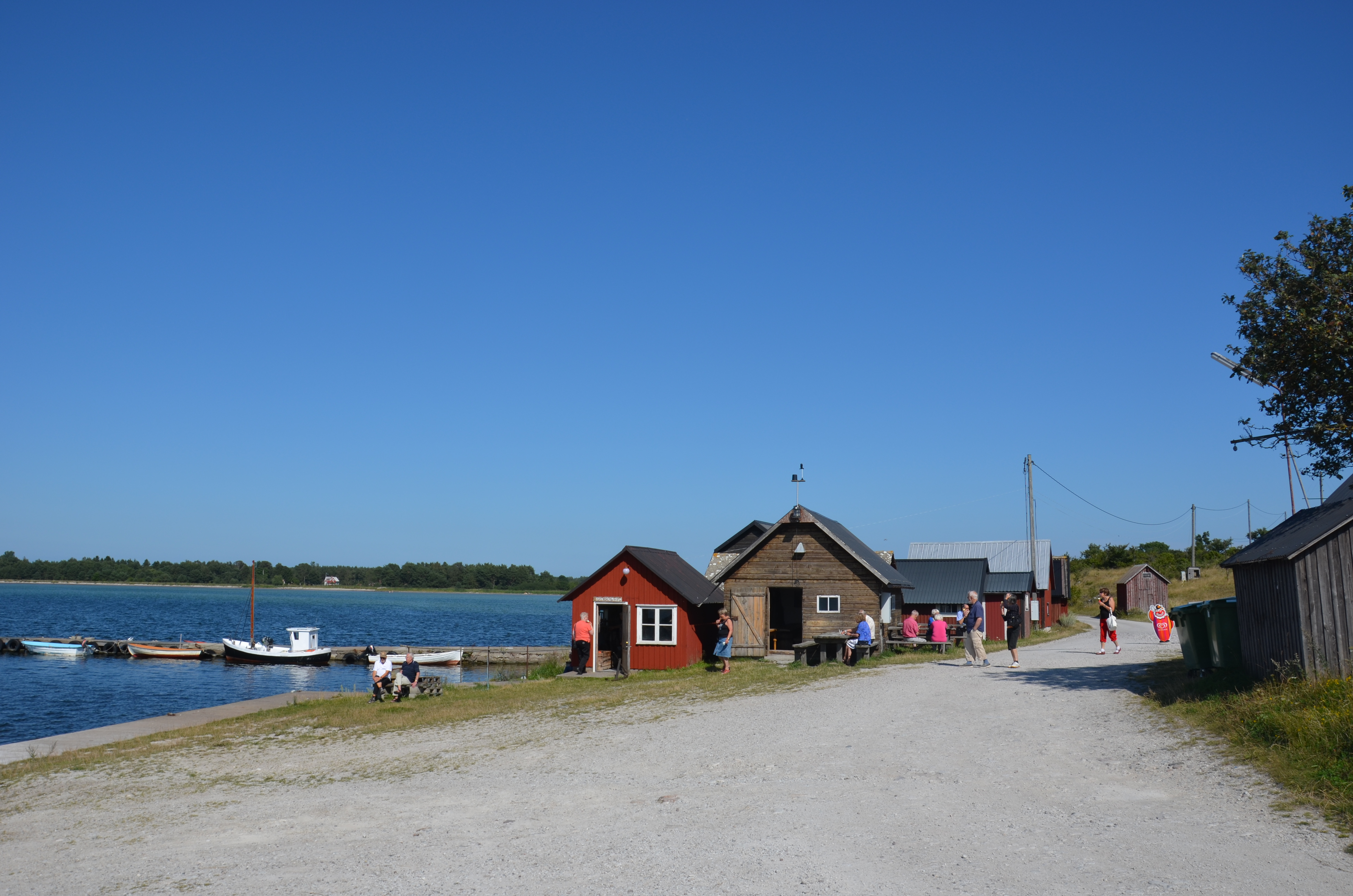 Fiskebodar i Syssne